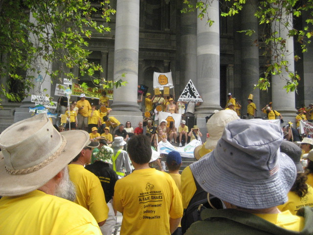 A rally against the Wellington Weir proposal on the steps of Parliament House.